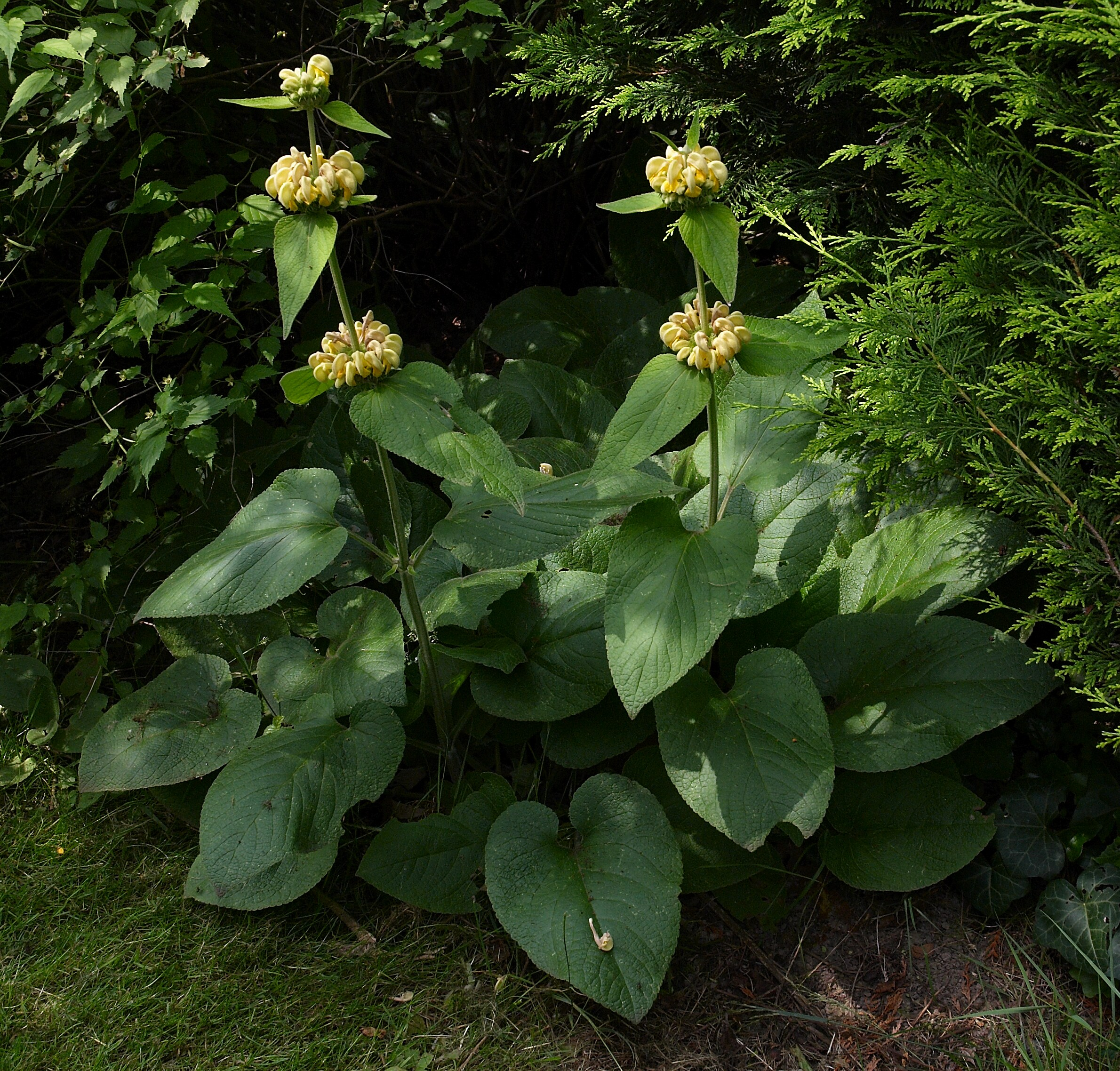 Phlomis russeliana. This photo has been taken in Belgium.